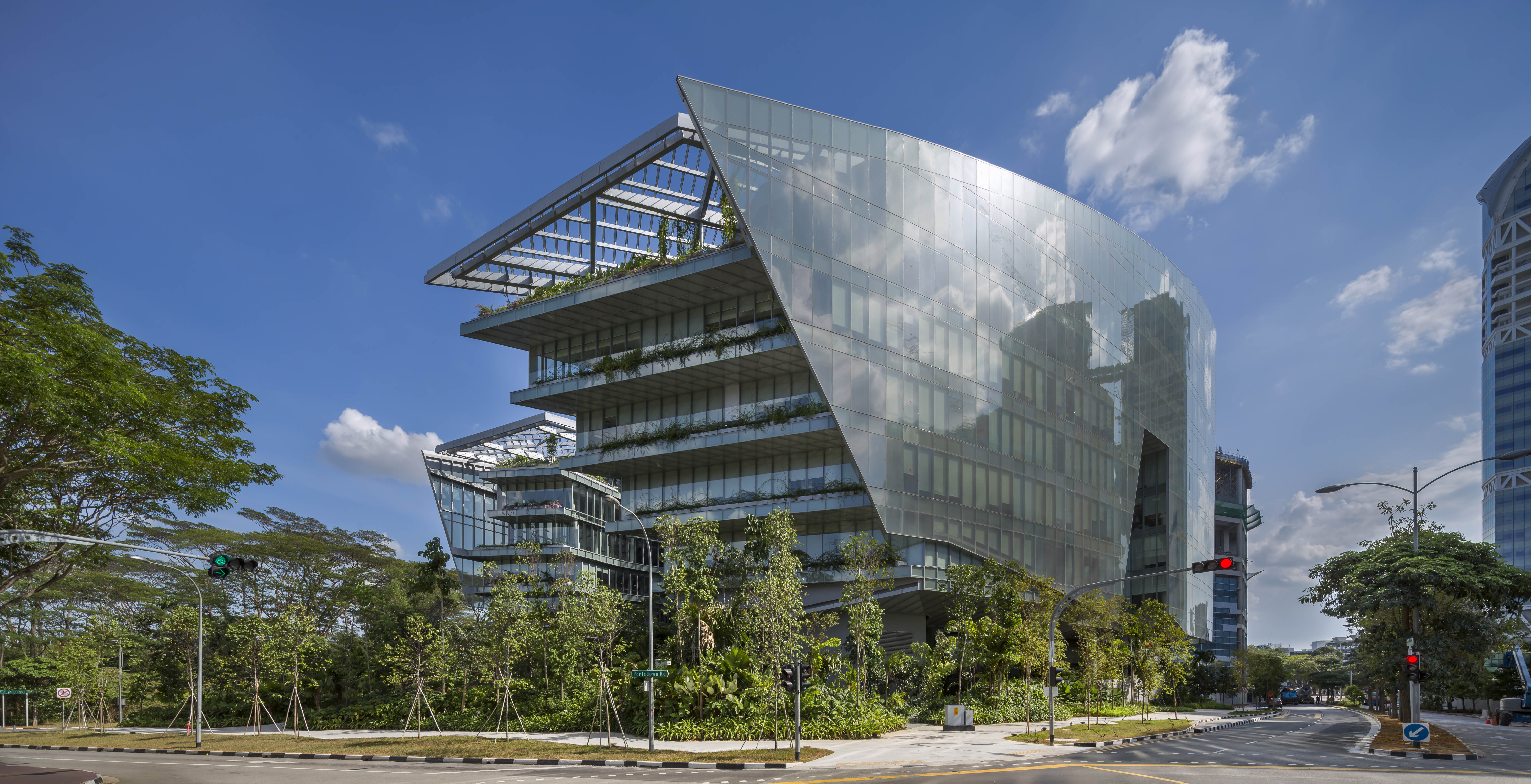 Sandcrawler (Site named CX2-1) is an eight storey building owned by Lucas Real Estate Singapore and home to Lucasfilm Singapore, Walt Disney Company (Southeast Asia) and ESPN Asia Pacific. Architects: Aedas